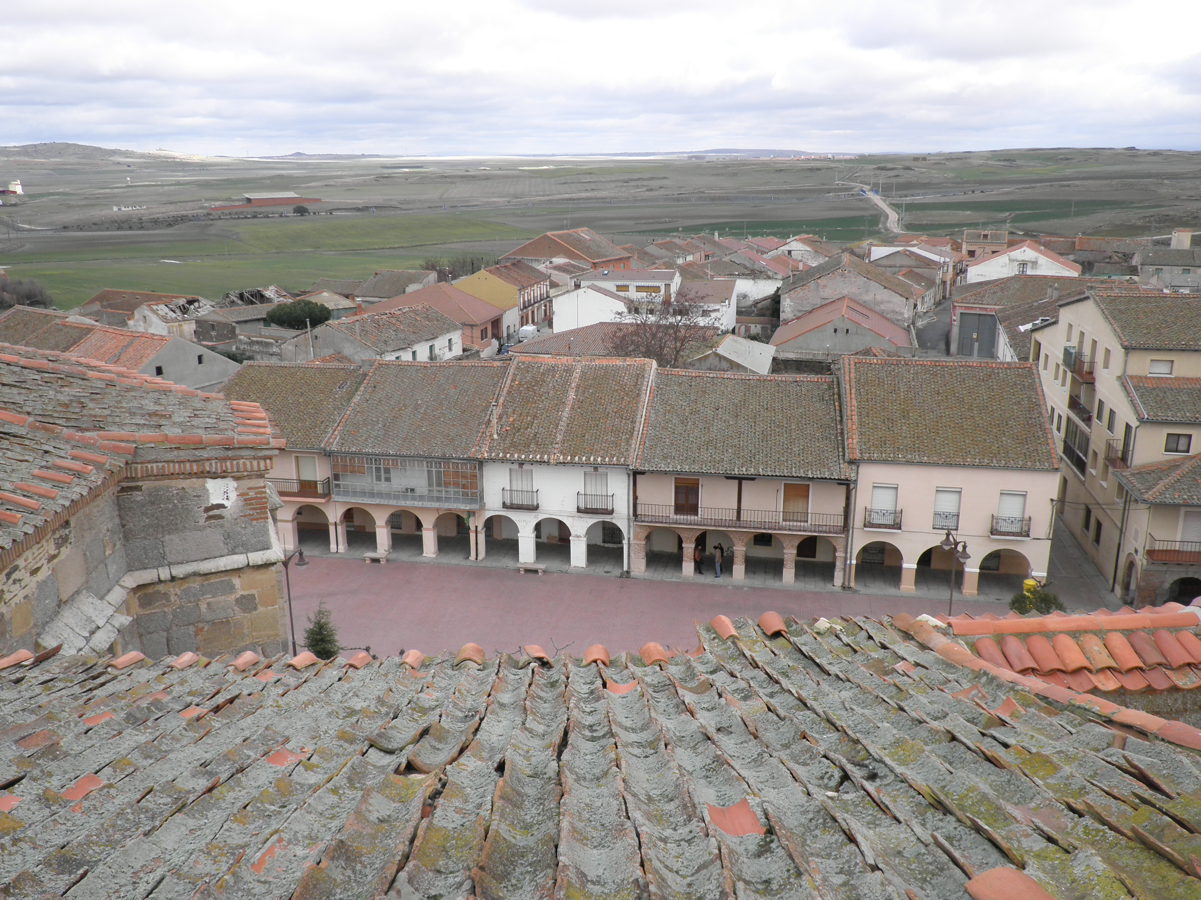 View of Main Square of Santa María la Real de Nieva, Segovia Province, Spain, from the top of its church's tower.